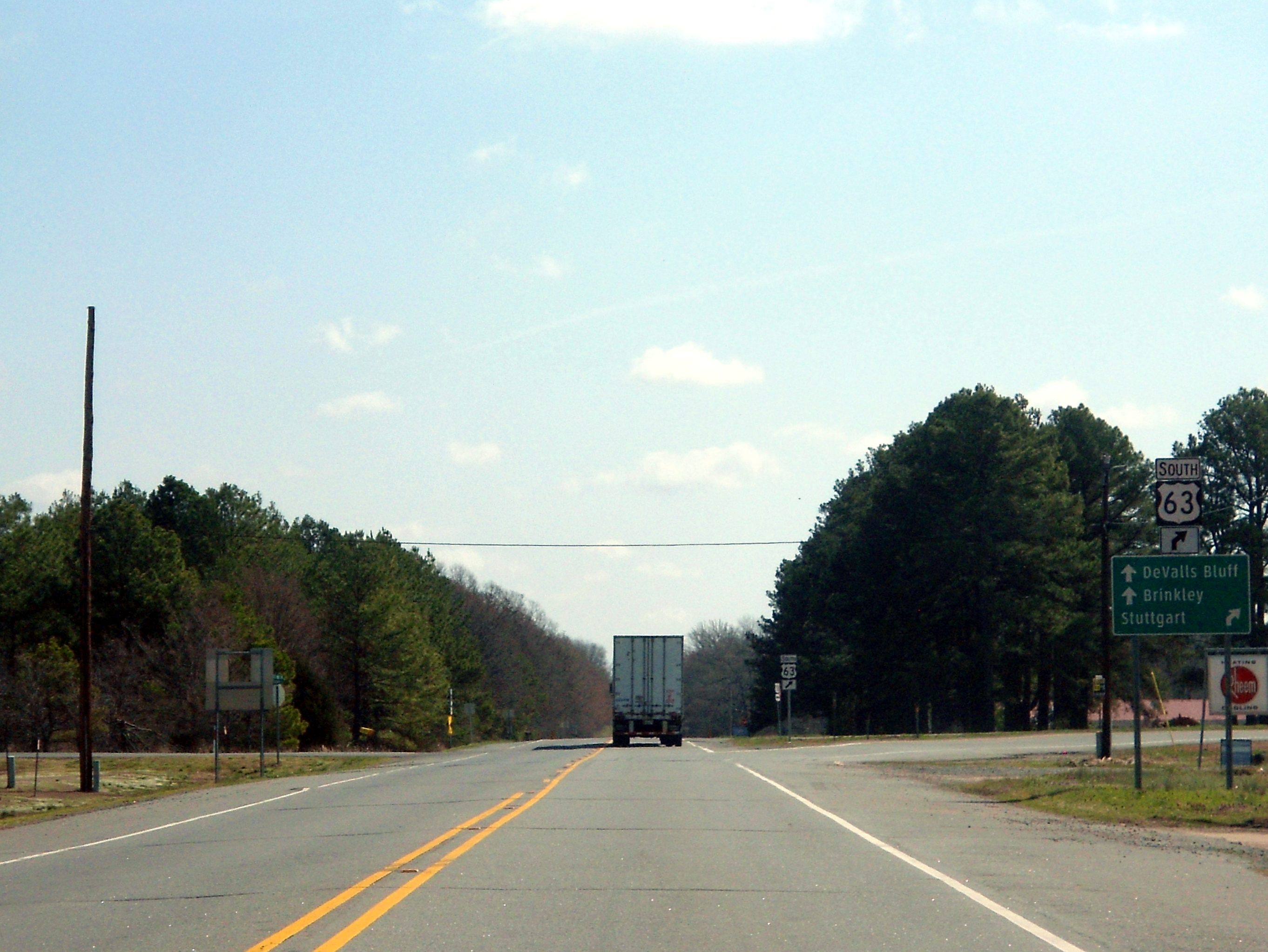 US 63 leaves US 70 near Hazen, AR